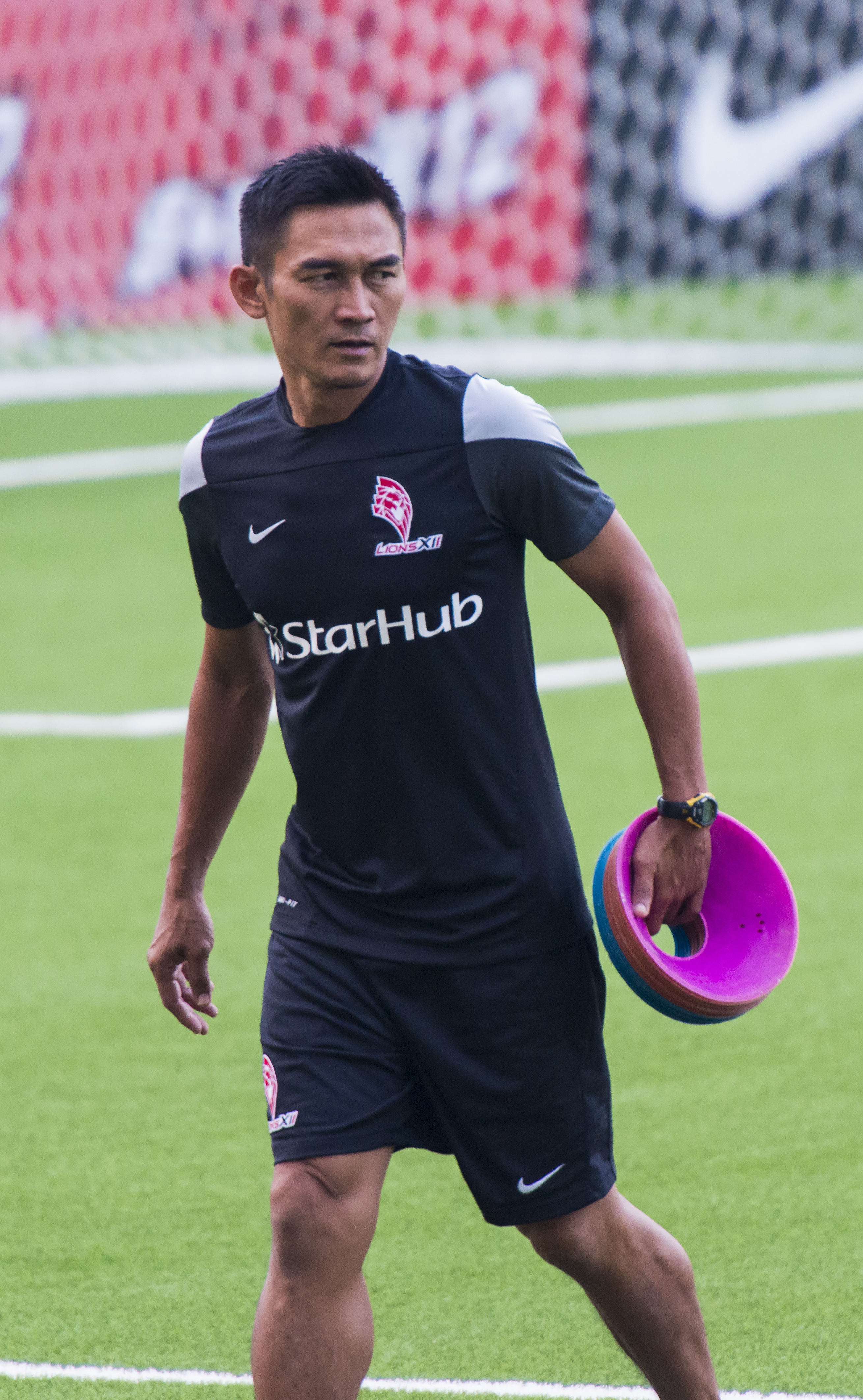 nazri nasir msl 2014 lionsxii kelantan fa